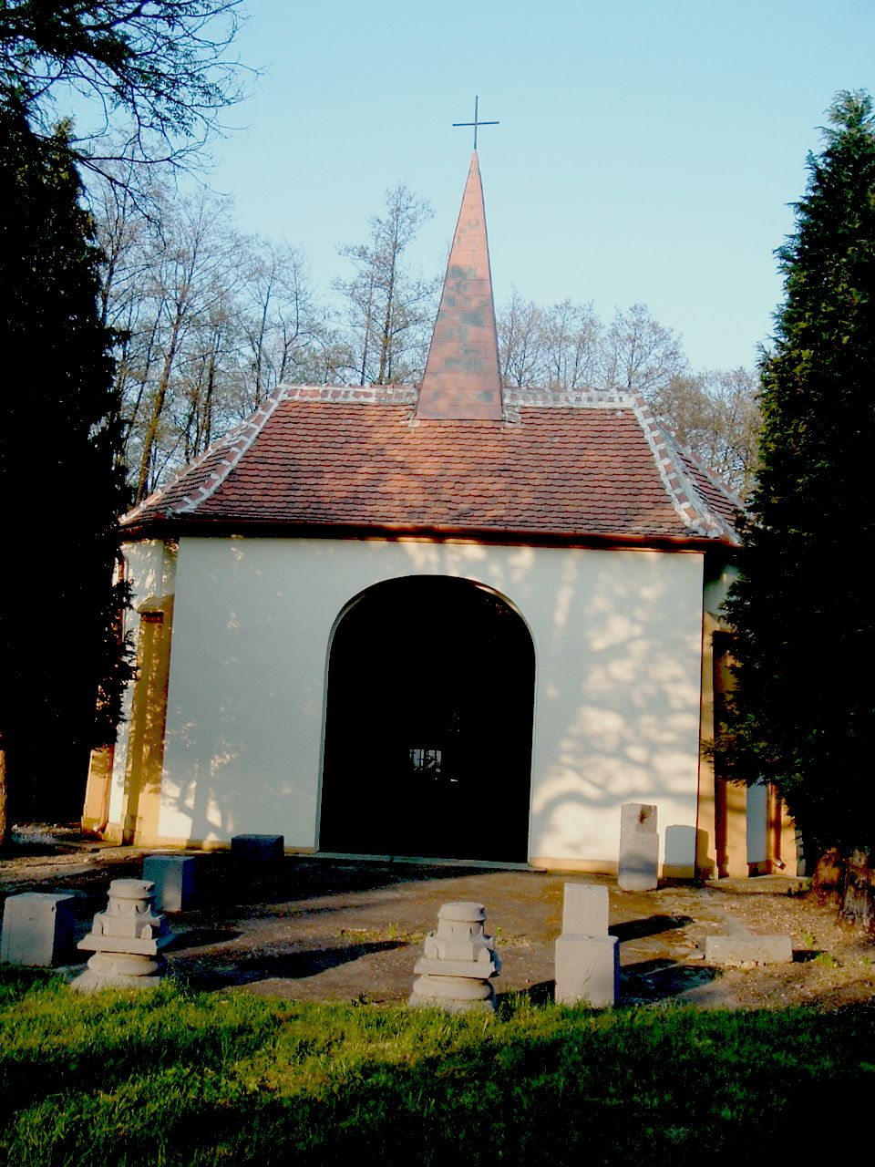 Vát, Shrine at the Holy Spring